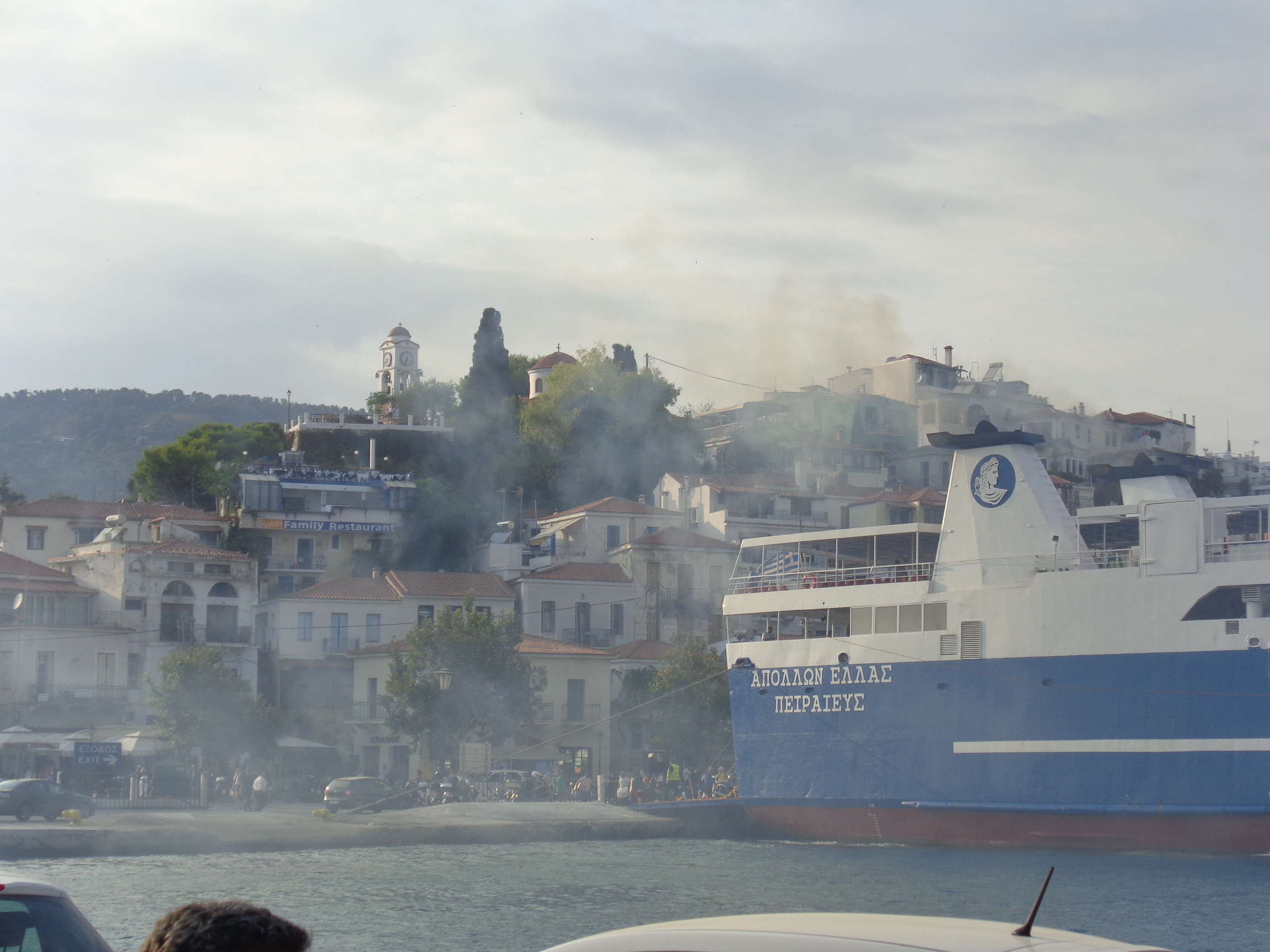 Environmental Pollution by Greek shipowners, Skiathos, Greece